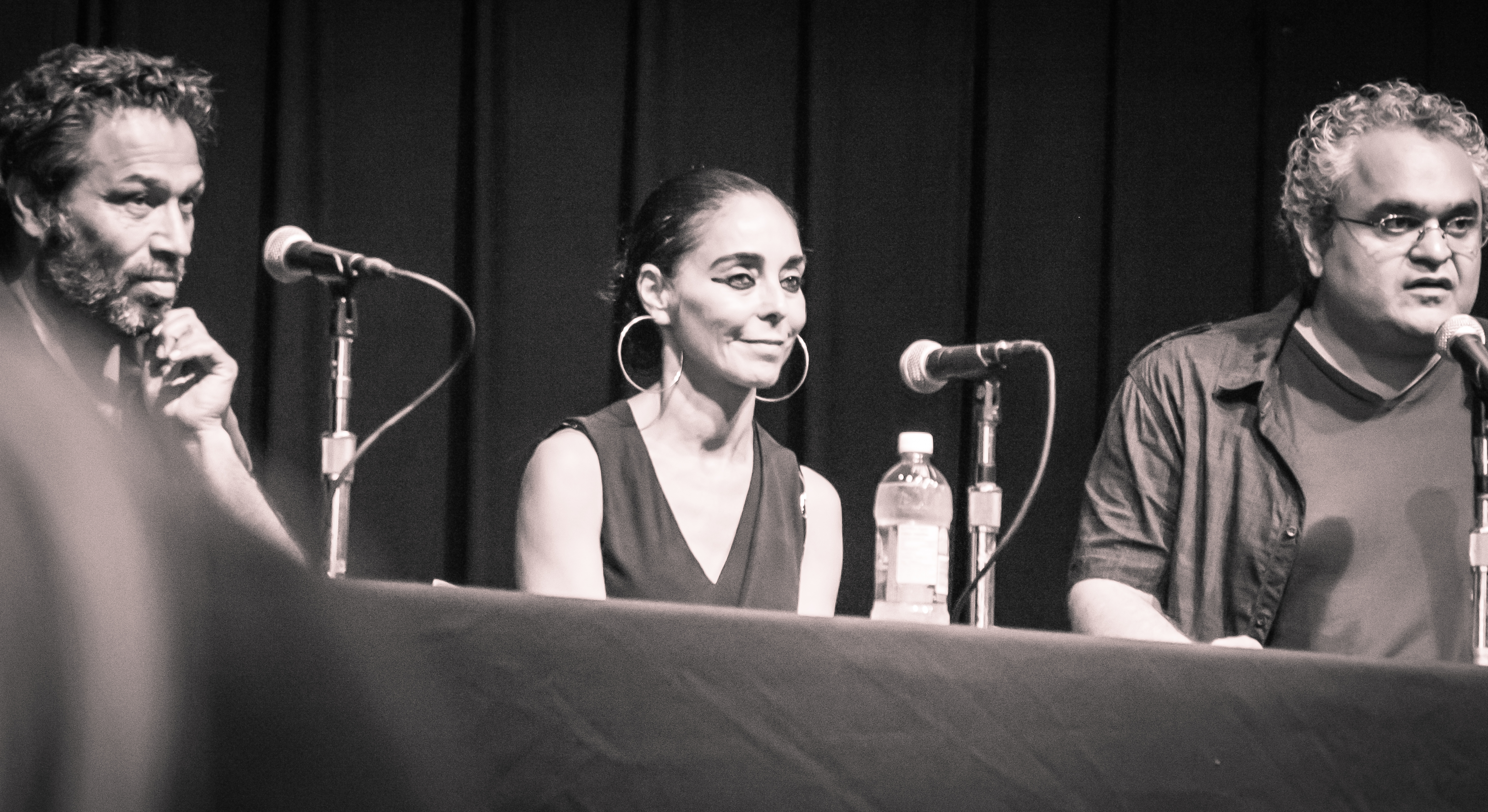 Correlations of Visual Arts & Cinema (Tirgan Festival 2013)